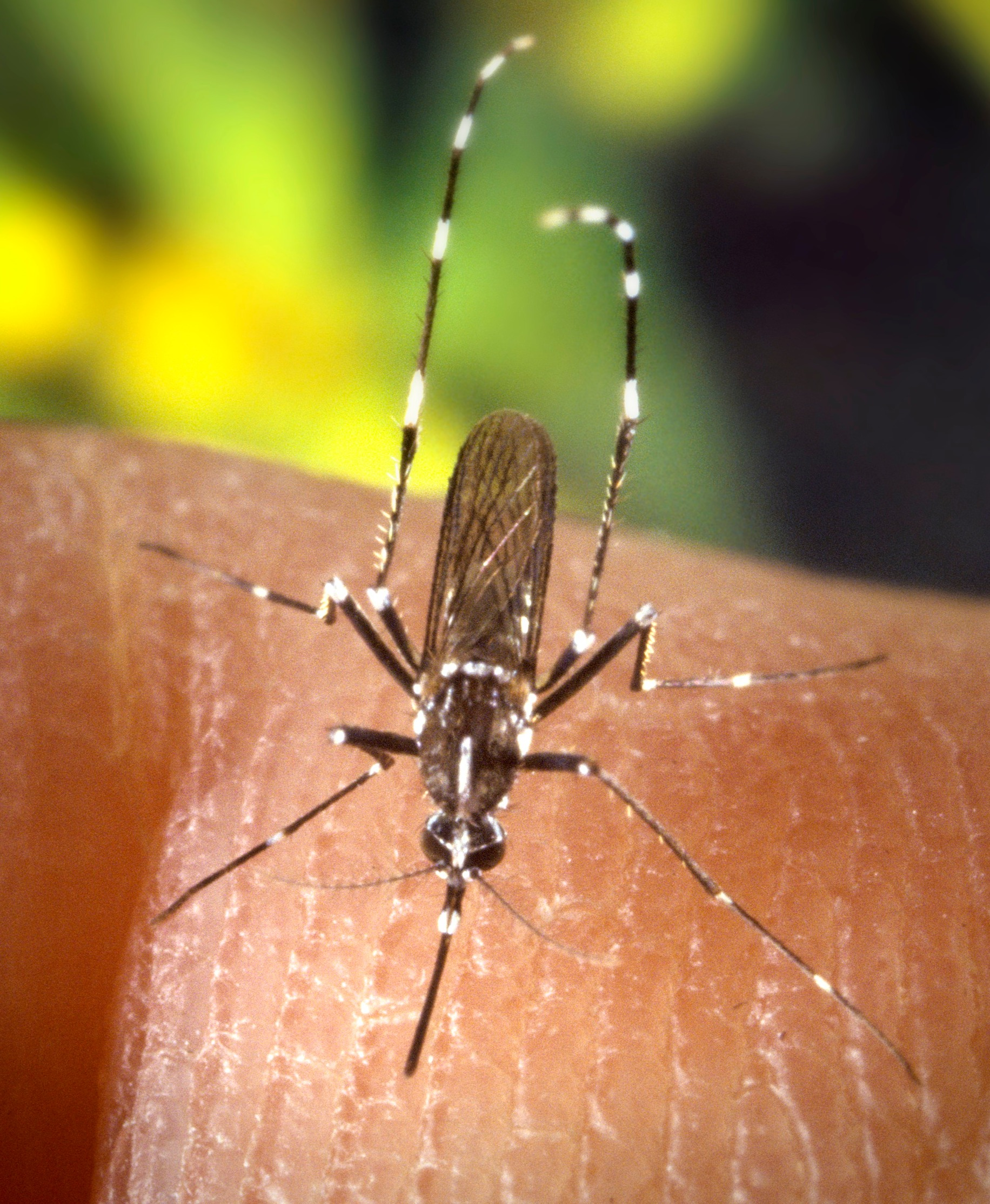 Asian tiger mosquito, Aedes albopictus, showing the typical white stripe on its back.